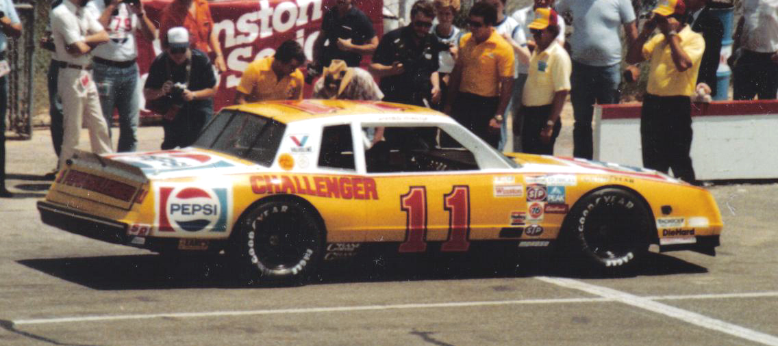 The Junior Johnson owned Pepsi Chevy of Darrell Waltrip finished 2nd in the 1983 Van Scoy 500.